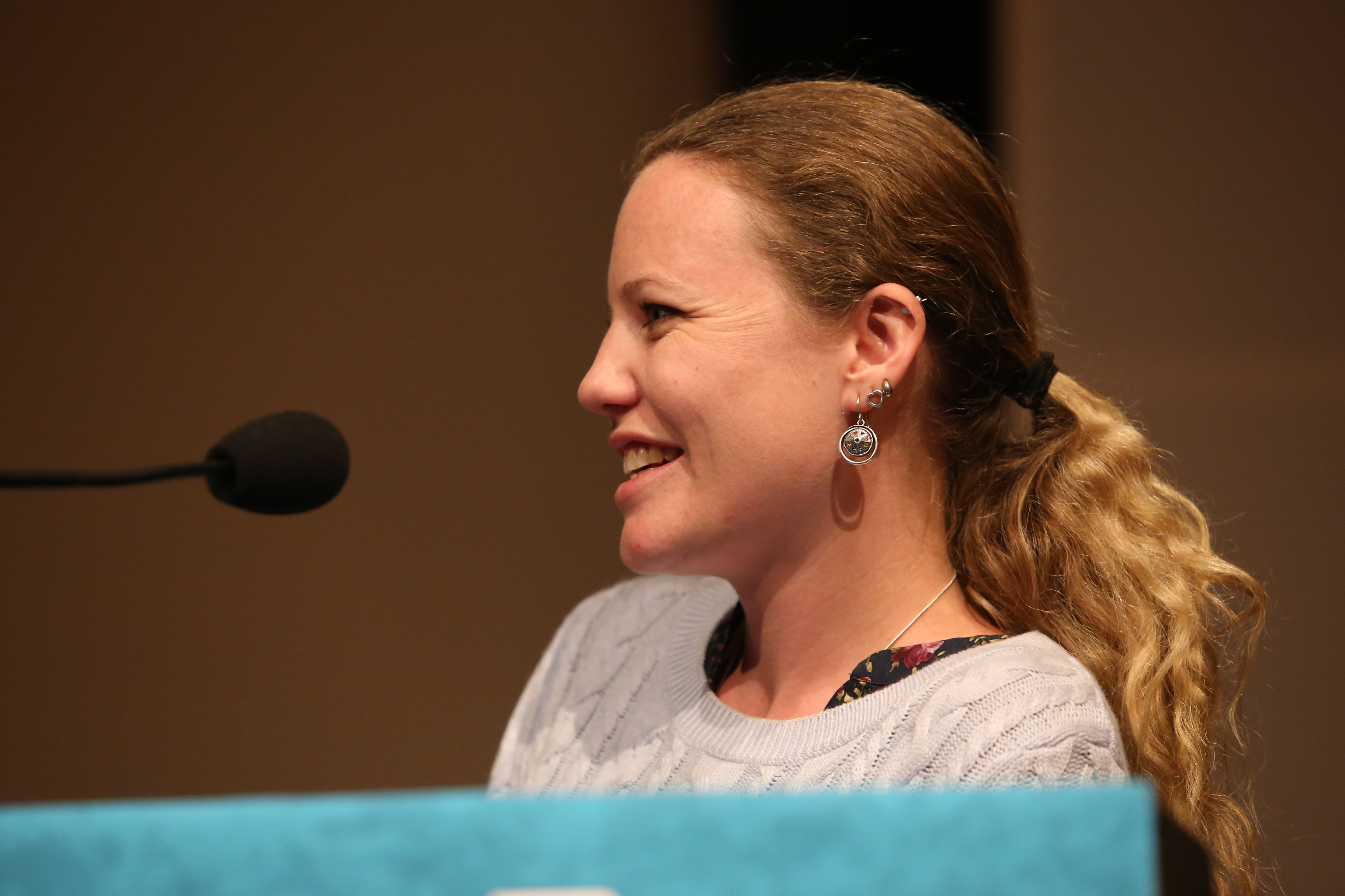 Sarah Harrison at the 30th Chaos Communication Congress in Hamburg, 2013